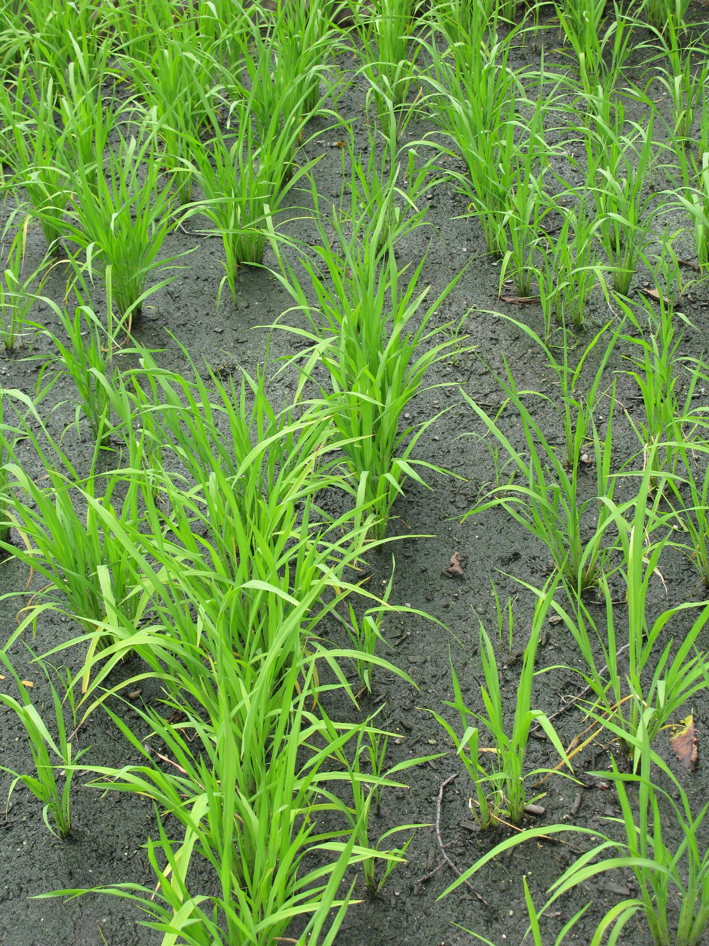 Bhutanese red rice field. Folklife Festival, Washington D. C.